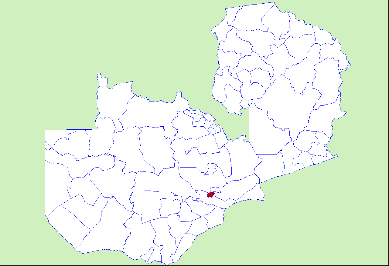 District locator in Zambia